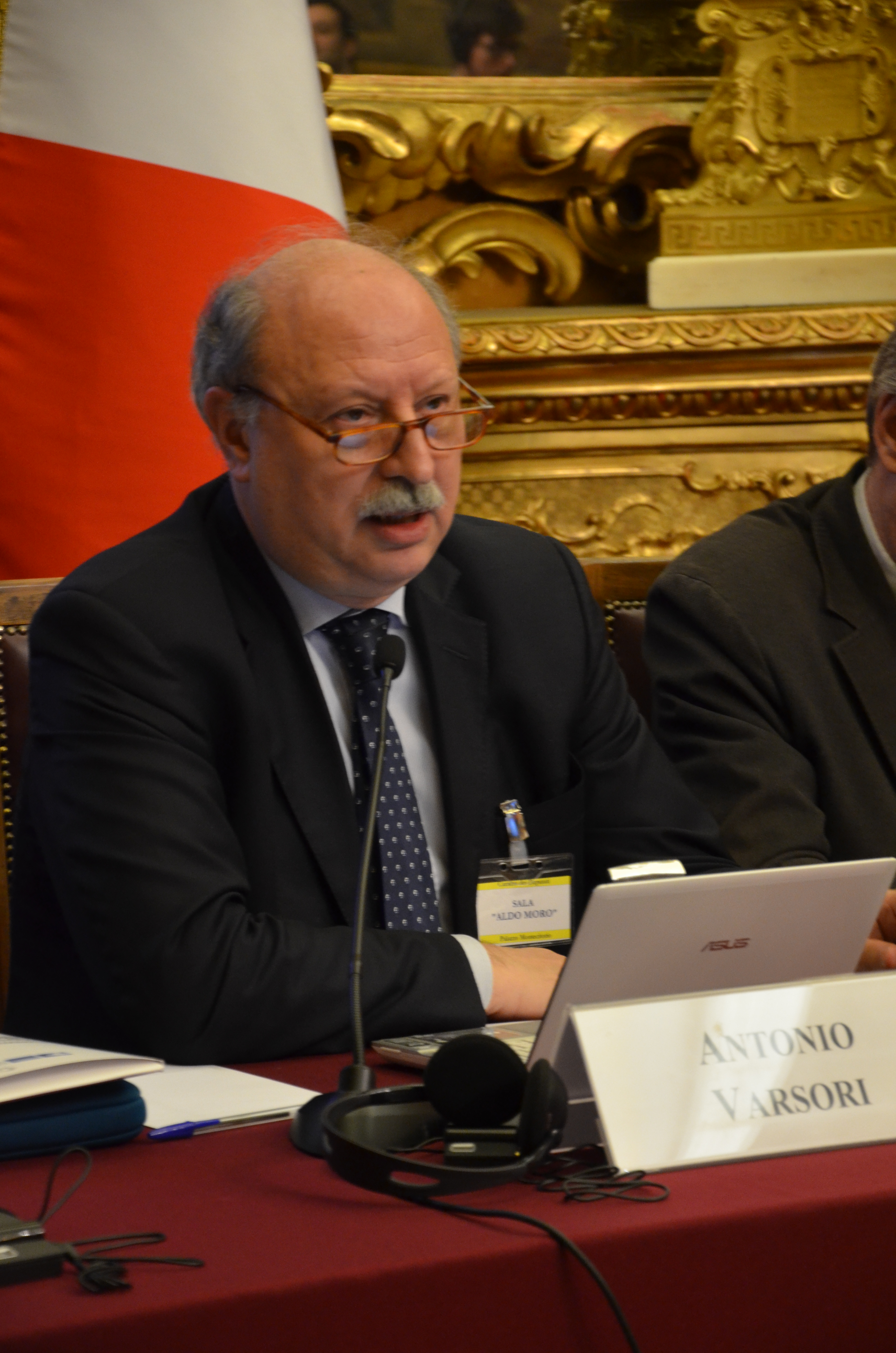 Antonio Varsori, University of Padova